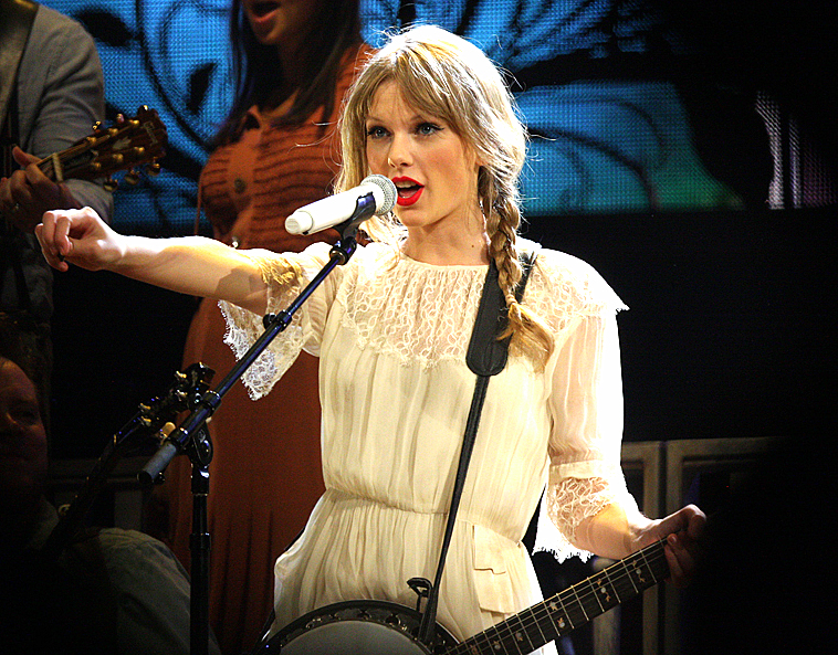 Taylor Swift - Speak Now Tour Hots Sydney, Australia 2012.